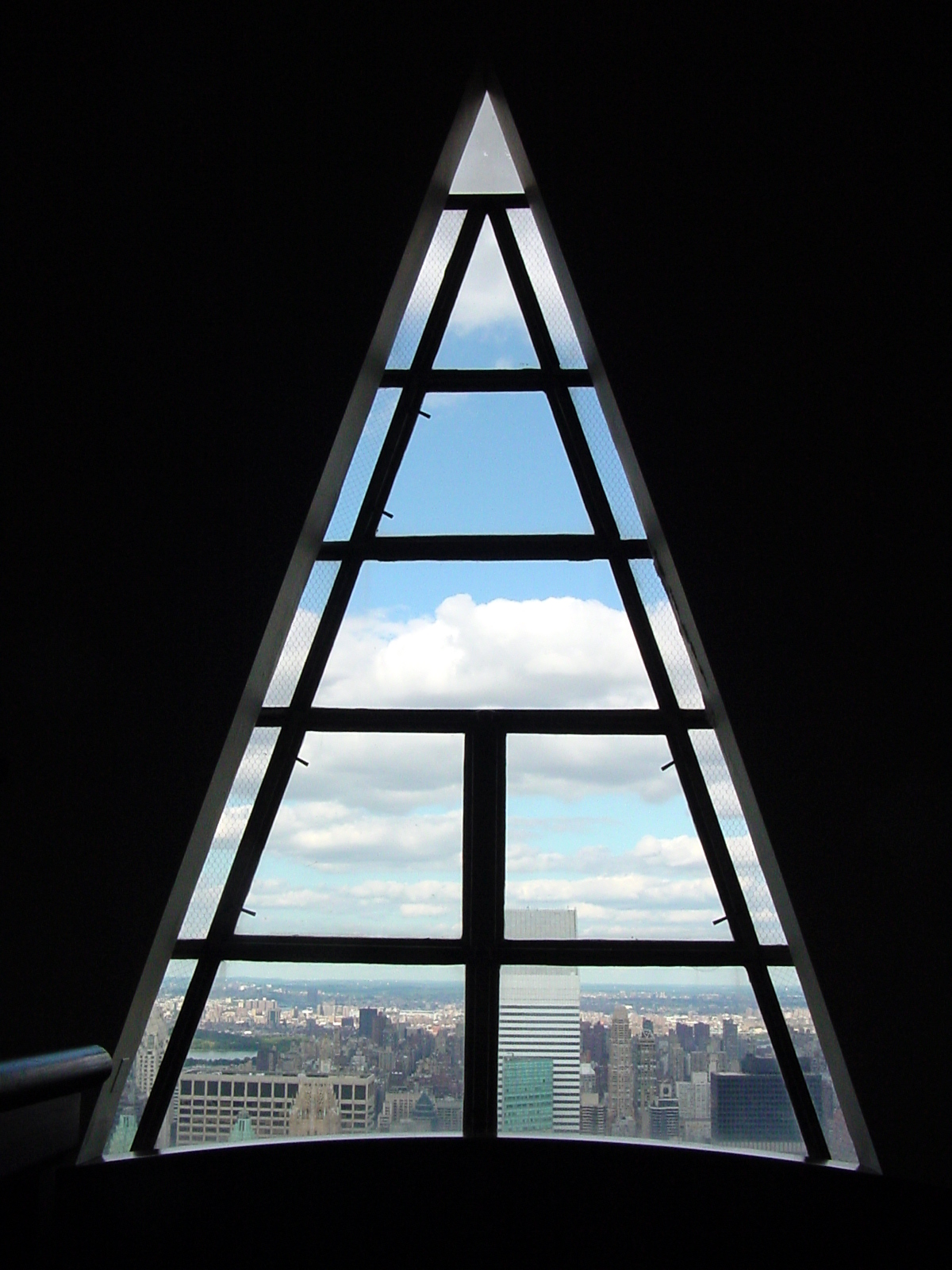 Looking out of the Chrysler Building top floors.